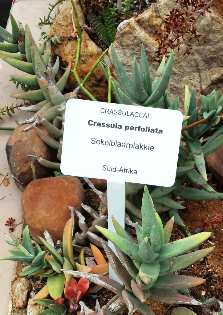 Crassula perfoliata - RSA 5